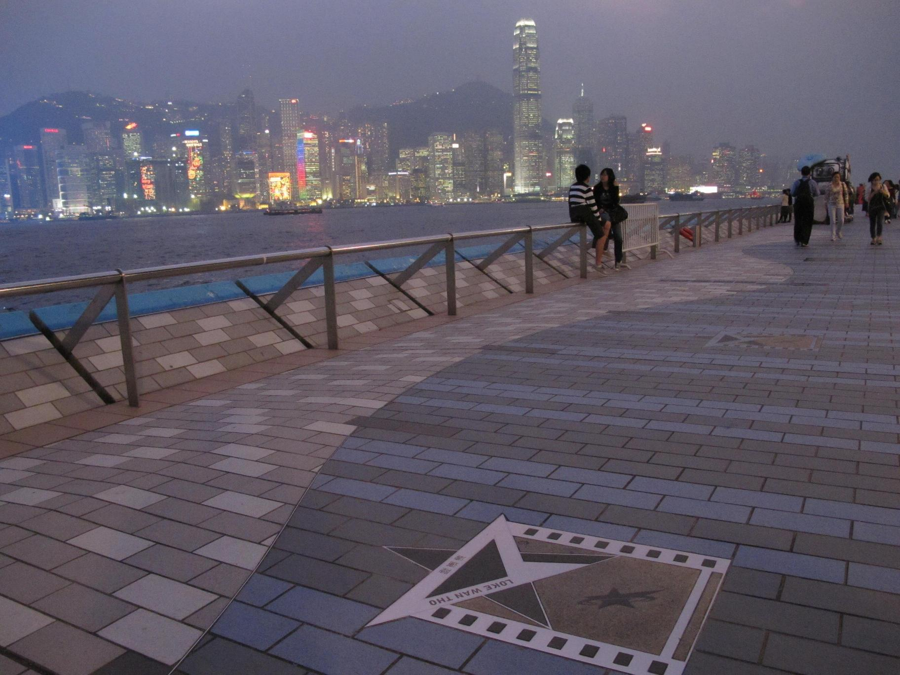 Loke Wan Tho memorial, Avenue of Stars, Hong Kong